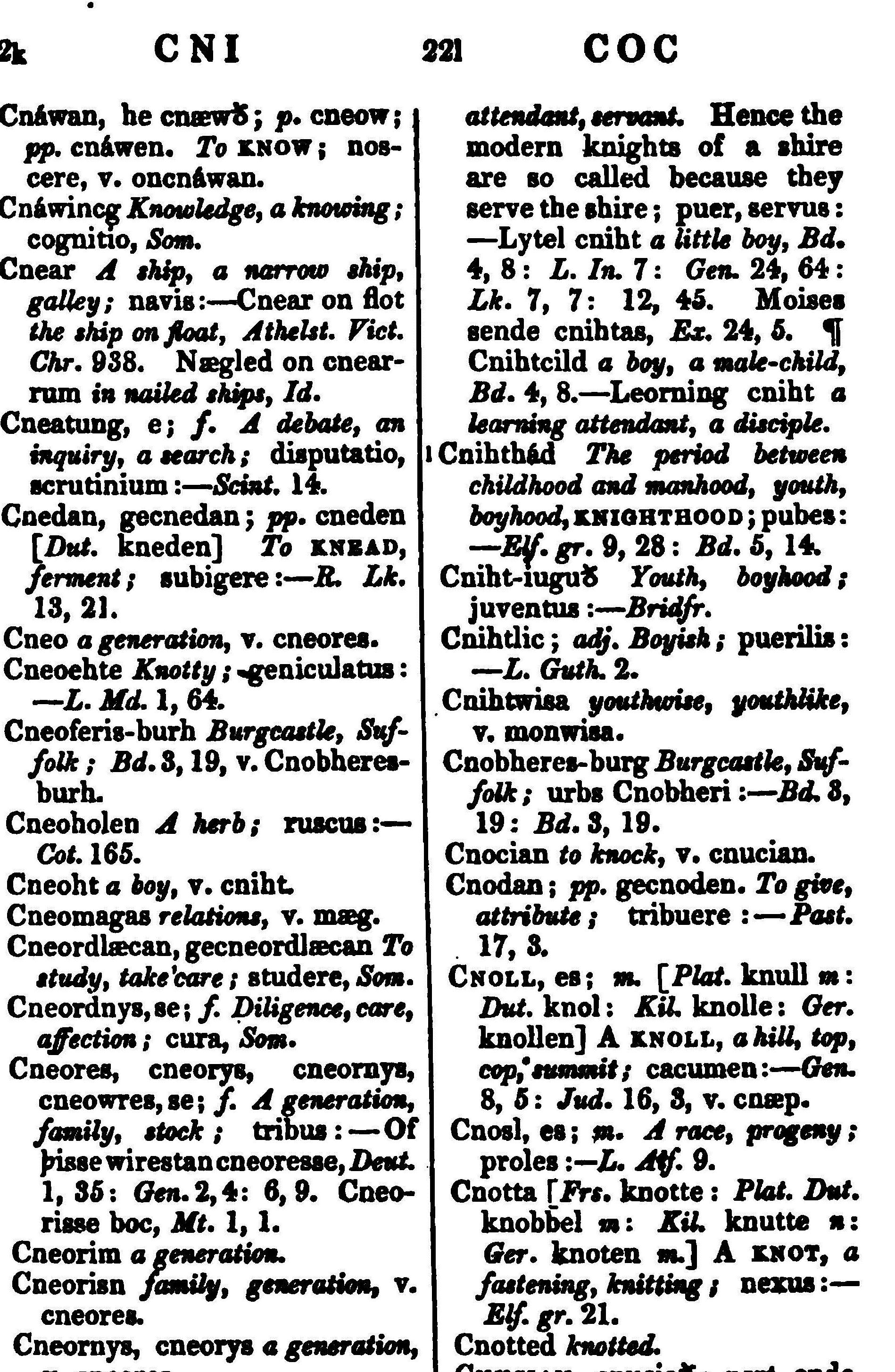 A page from A Dictionary of the Anglo-Saxon Language